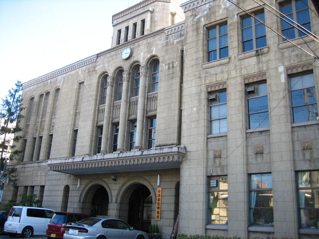 A picture of Aizuwakamatsu city hall in the daytime. Picture was taken in Aizuwakamatsu, Fukushima Prefecture, Japan with a Canon Power Shot SD450 Digital Elph camera and modified using a Paint Shop program on a laptop computer.